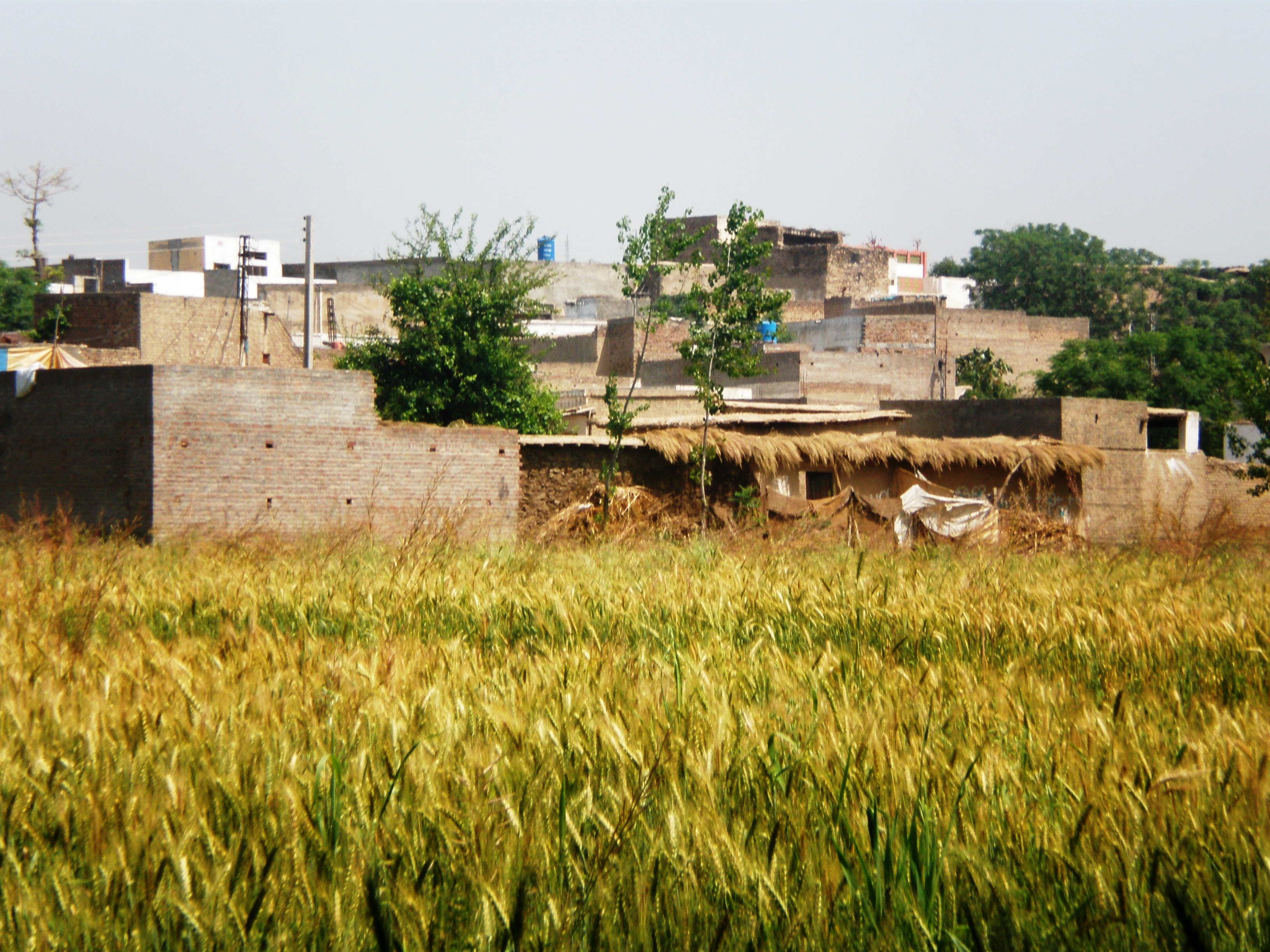 The picture shows general view of Seri Bahlol, a World Heritage Site in Pakistan, along with agriculture land